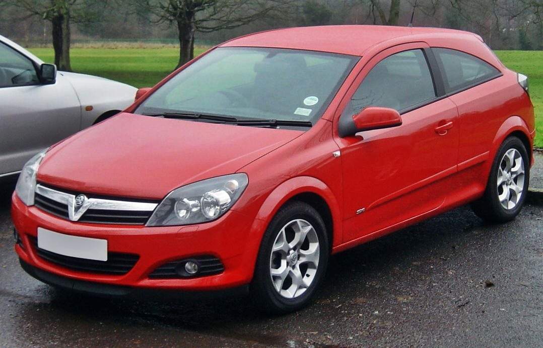 created by Mazurka